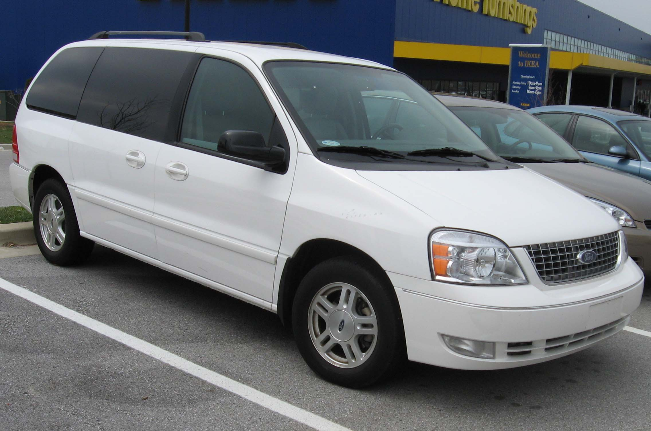 2004-2007 Ford Freestar photographed in USA.